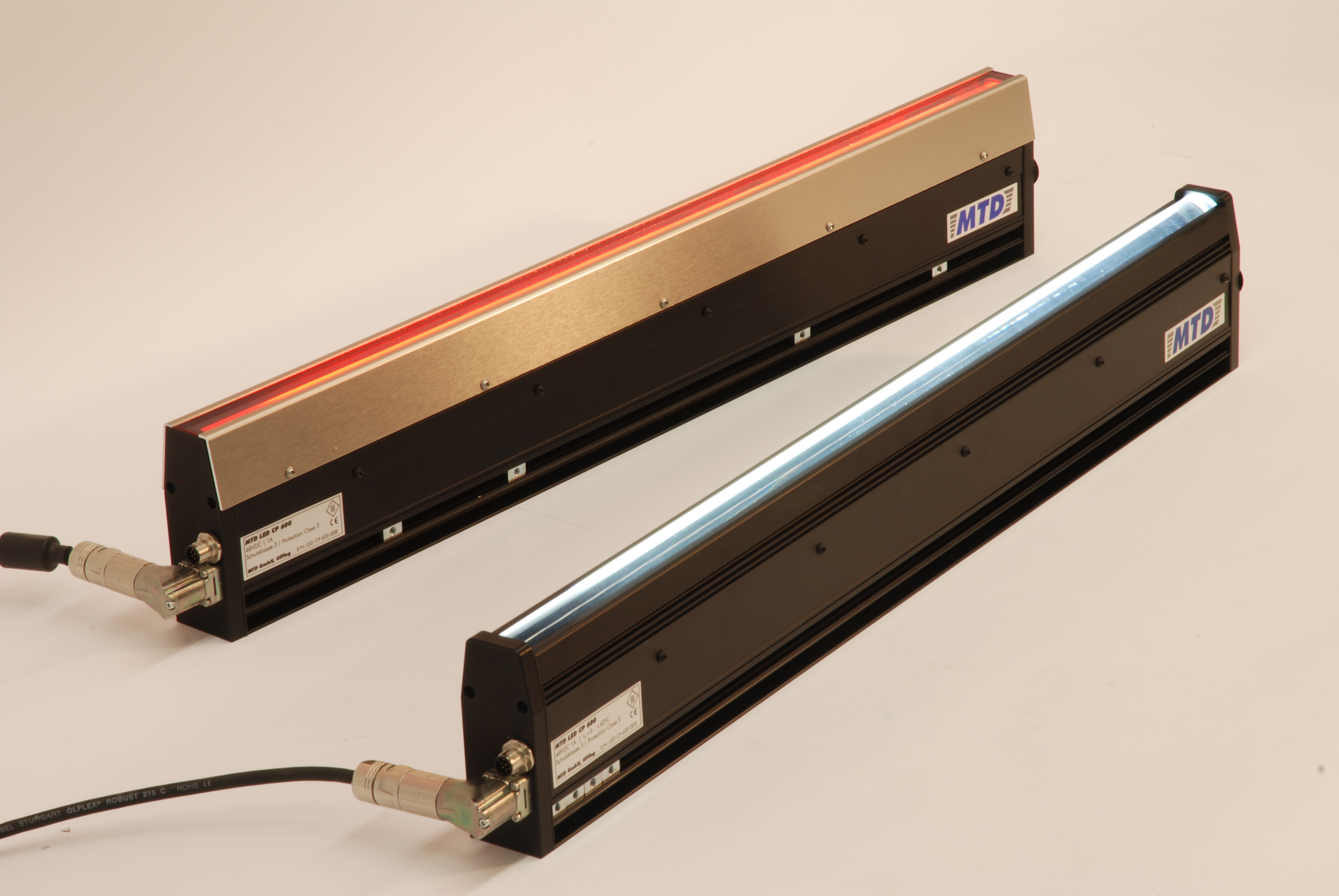 linelight